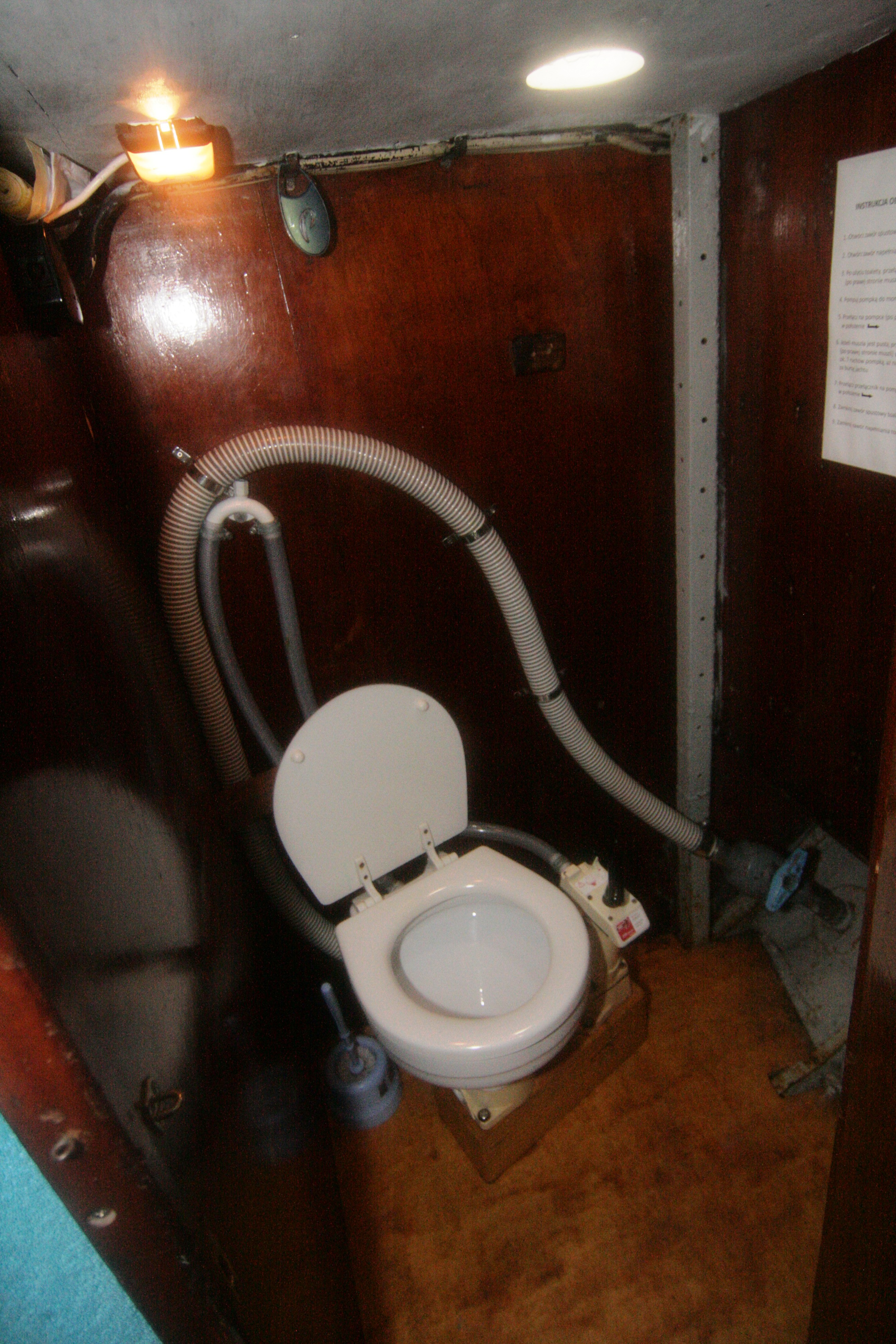 SY Bies head